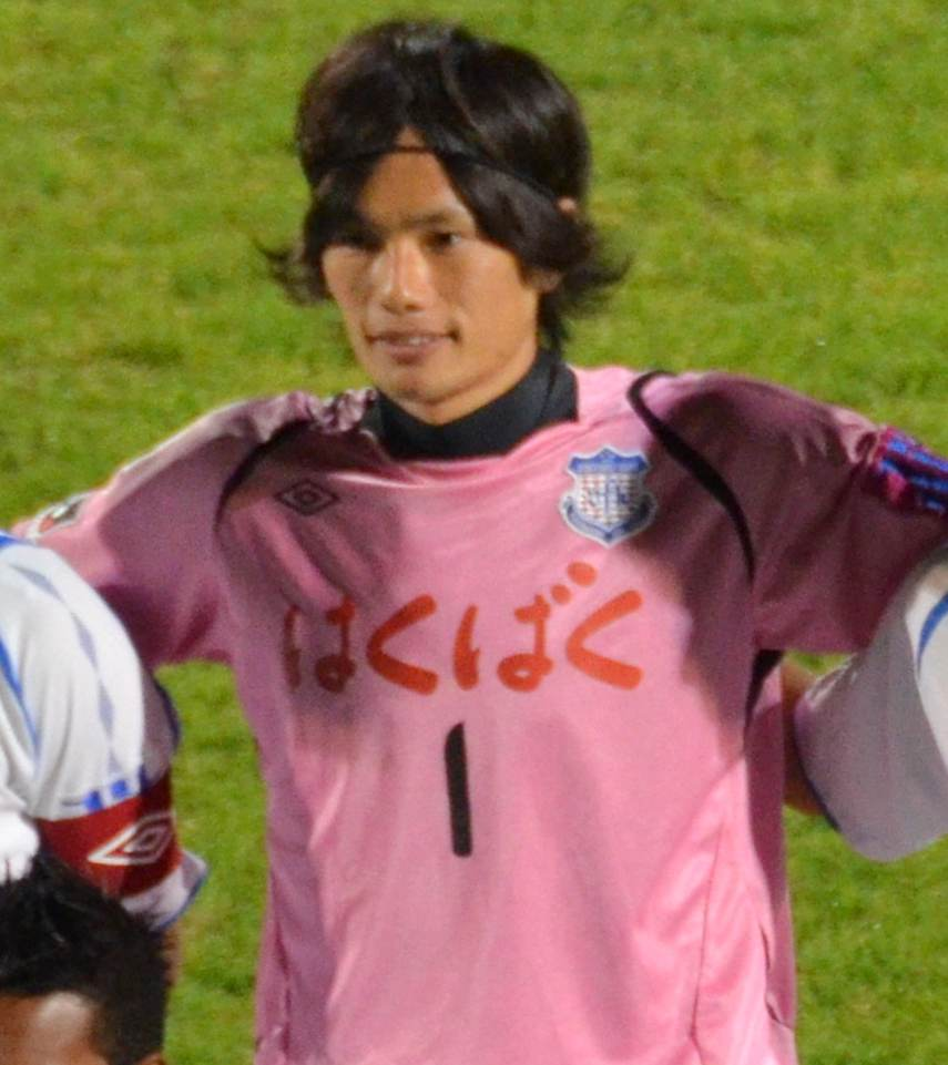 Kota Ogi cropped from DSC_1758